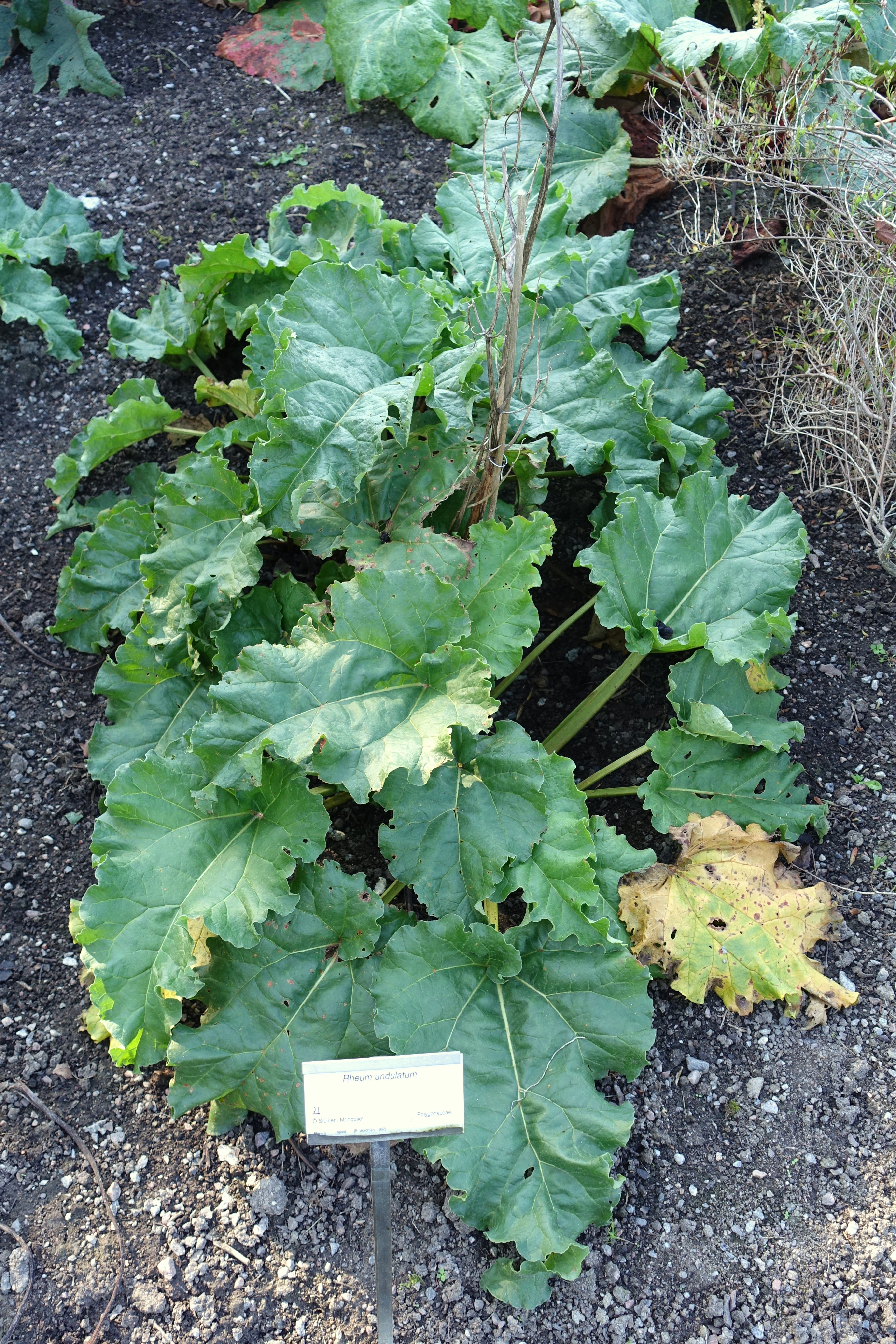 Botanical specimen in the Bergianska trädgården - Stockholm, Sweden.